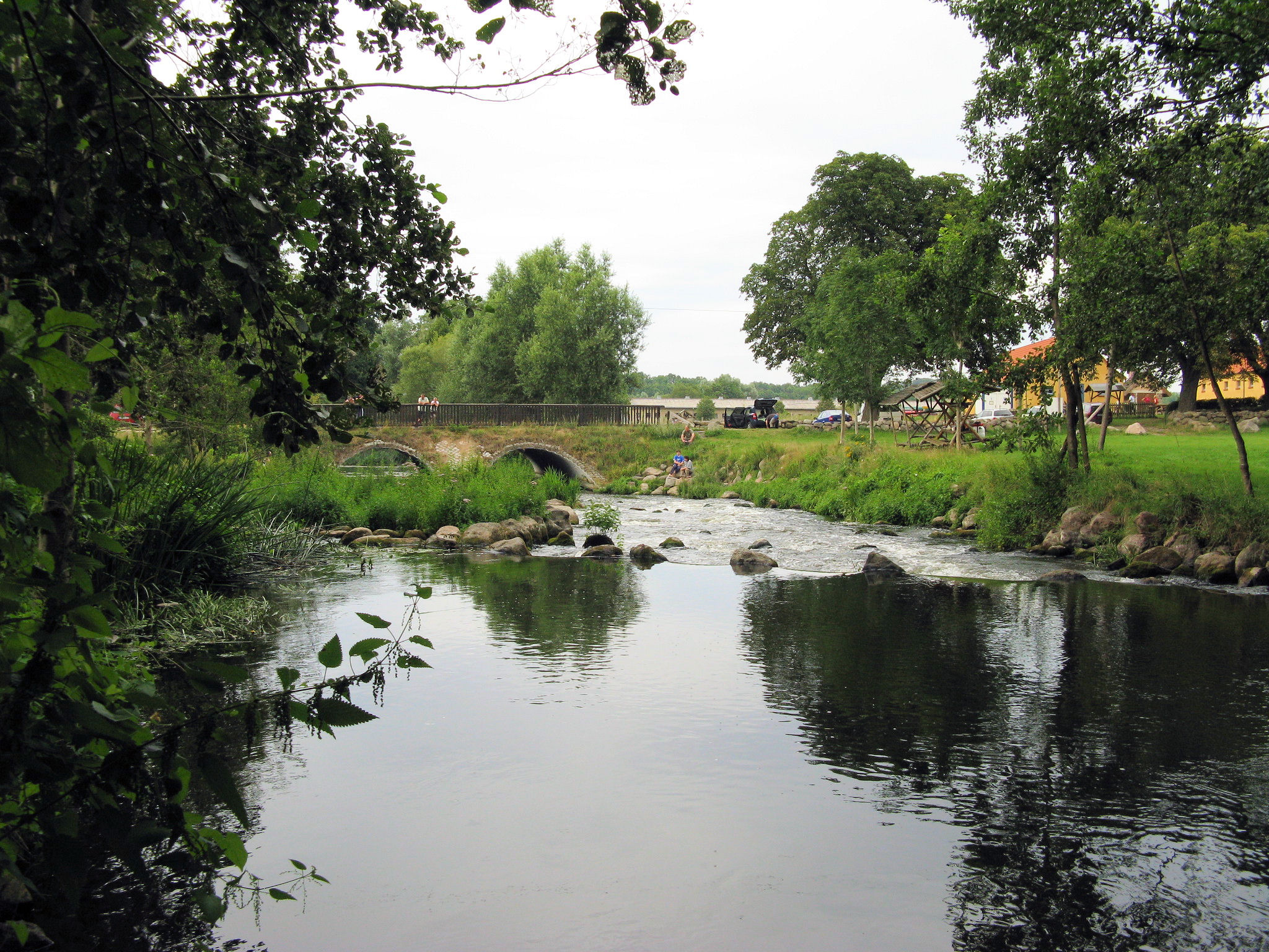 Warnow river in Eickhof, disctrict Güstrow, Mecklenburg-Vorpommern, Germany